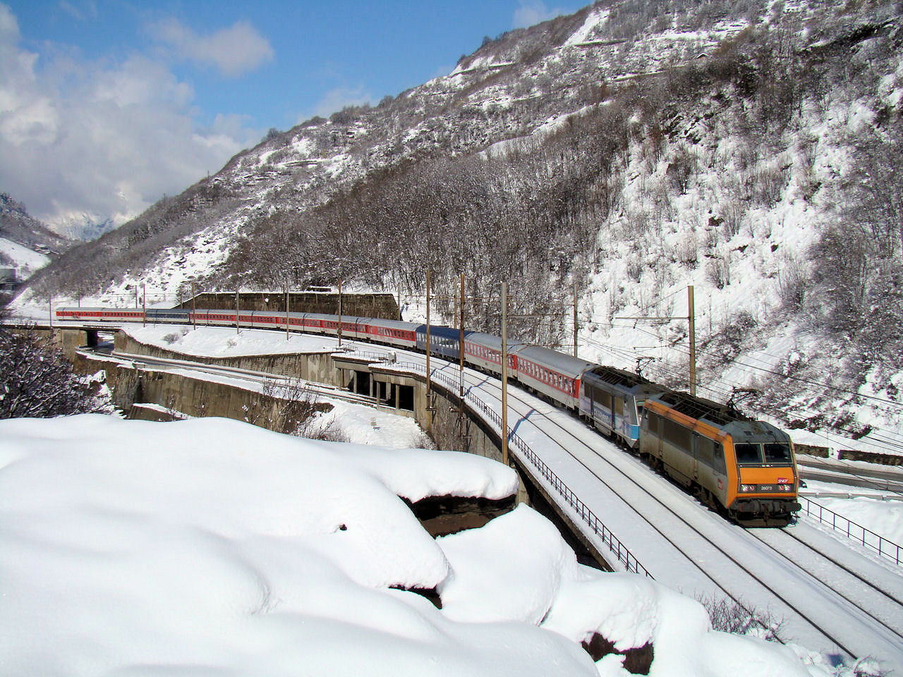 German carriages pulled by French locomotives coming from Copenhagen in Denmark and bound for Modane in French Alps of Savoie, is passing at Orelle and will arrive in Modane in a few minutes.